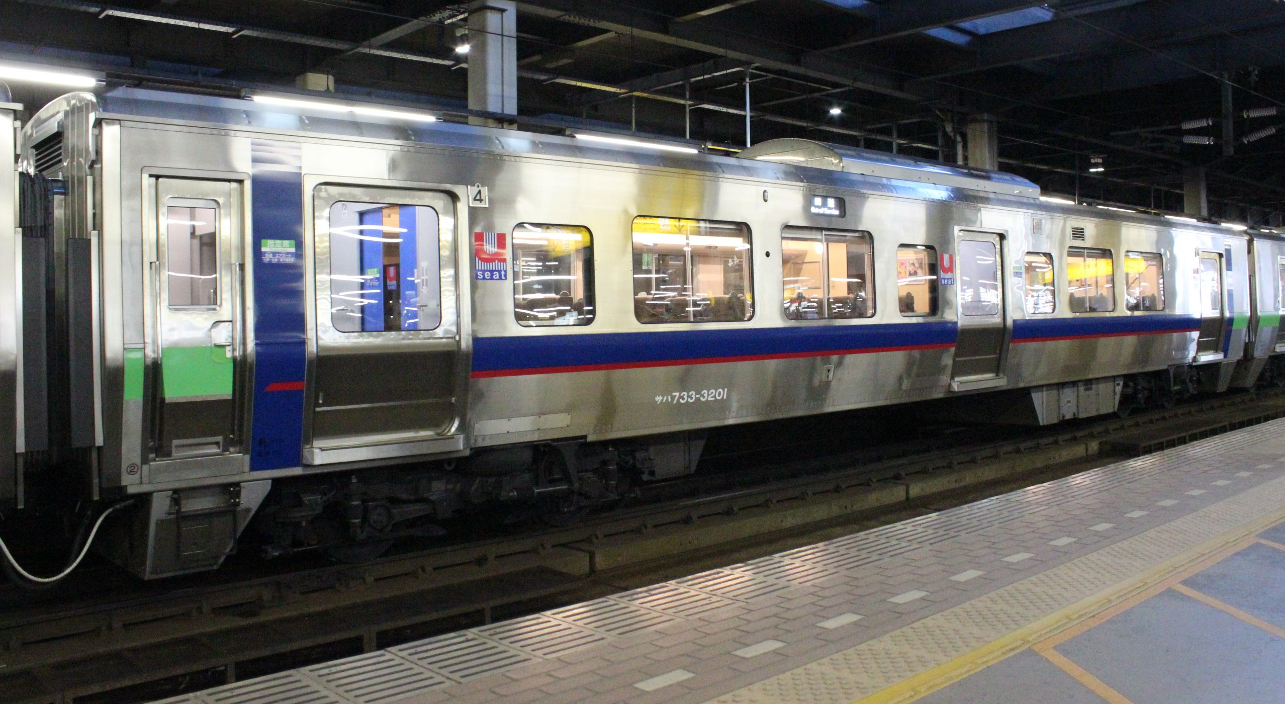 JR Hokkaido 733-3000 series EMU "u Seat" (reserved seating) car SaHa 733-3201